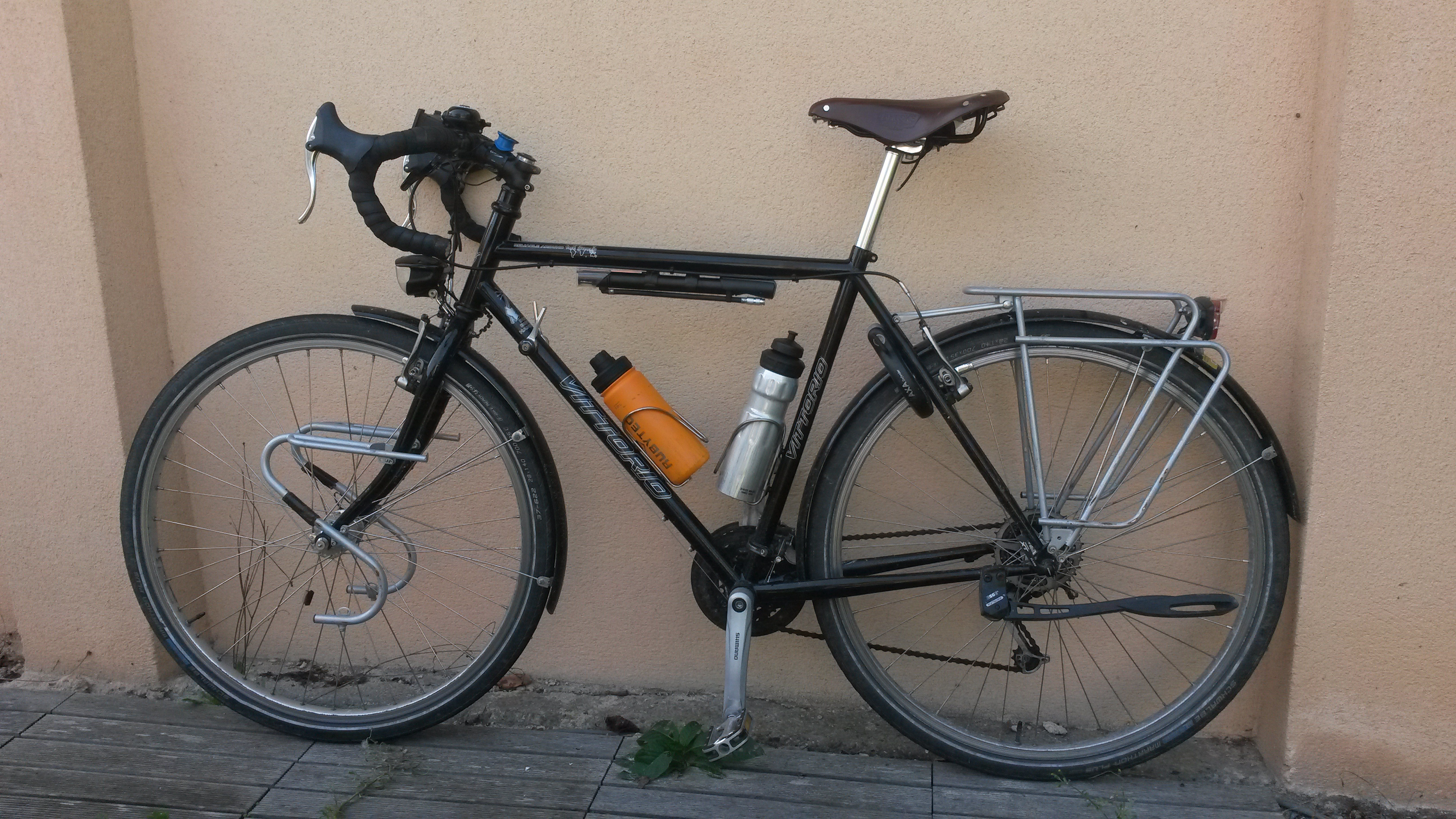 Touring bicycle produced in 2014 by the Dutch bicycle manufacturer Vittorio.